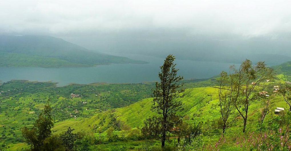 Sydney Point, Panchghani, Maharashtra